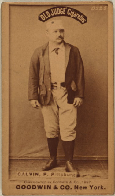 Pud Galvin baseball card, Goodwin & Company, 1887